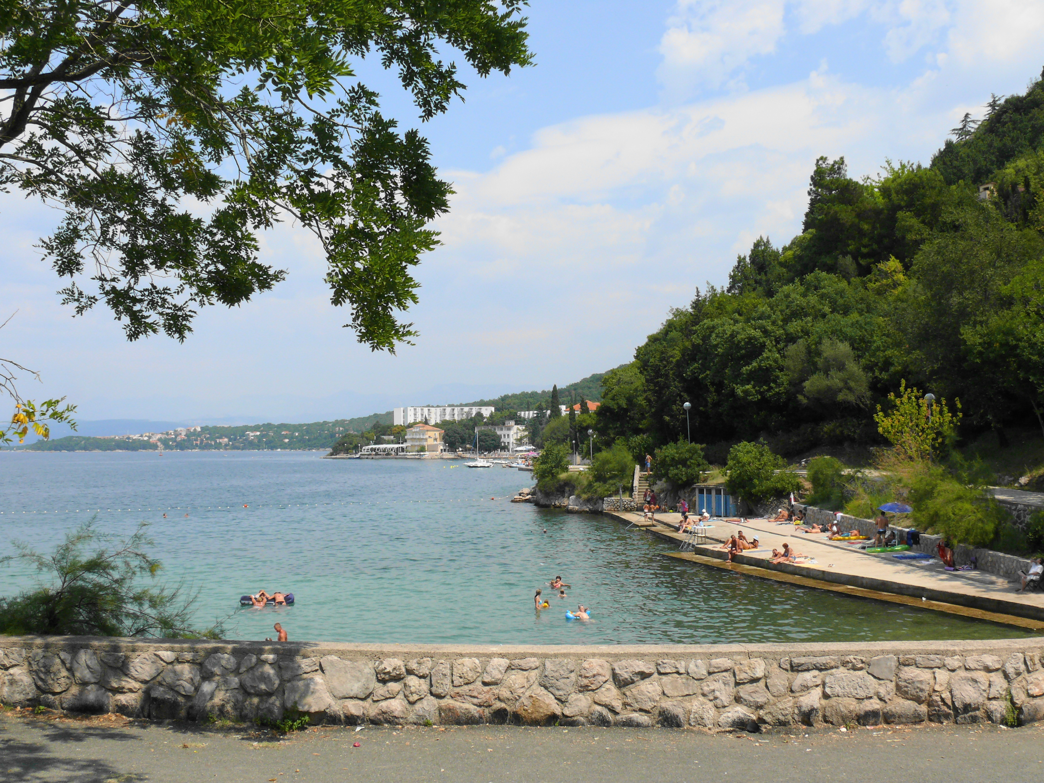 Omisalj strand, Island Krk,Croatia